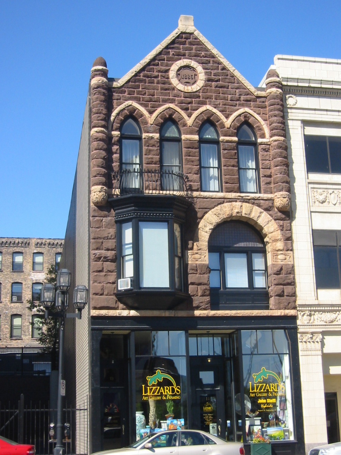 Wirth Building in Duluth, Minnesota, listed on the National Register of Historic Places.